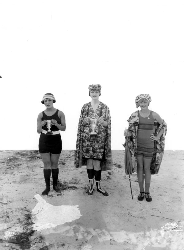 Local call number: Rc07633 Title: Bathing costume contestants at Ballast Point: Tampa, Florida Date: 1922 Corporate author: Burgert Brothers Physical descrip: 1 photoprint; b&w; 10 x 8 in. Series Title: Reference collection Repository: 500 S. Bronough St., Tallahassee, FL 32399-0250 USA. Contact: 850.245.6700. Persistent URL